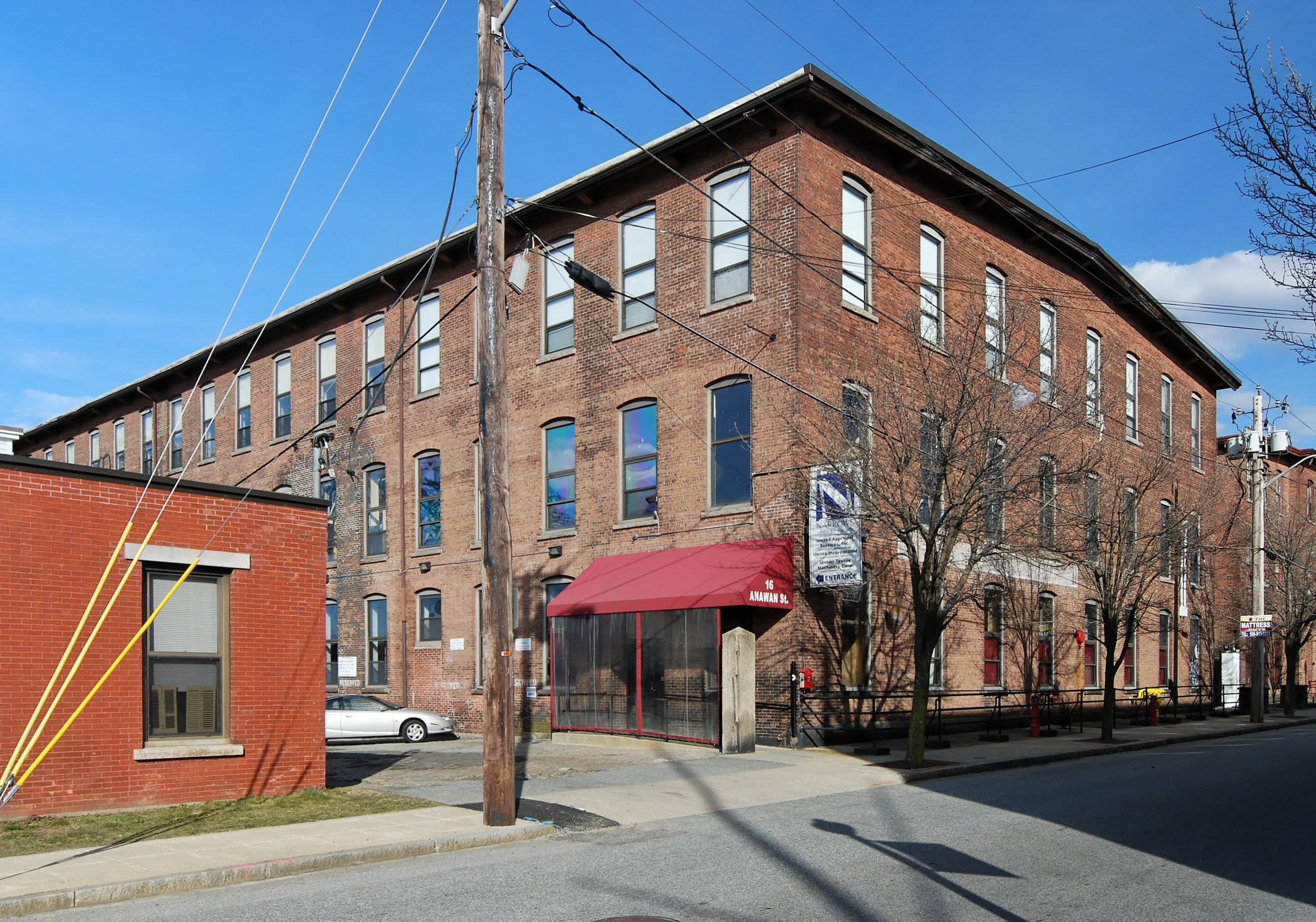 Lower storehouse of the American Printing Company, Anawan Street, Fall River, Massachusetts - now occupied by Narrows Center for the Arts and various businesses.